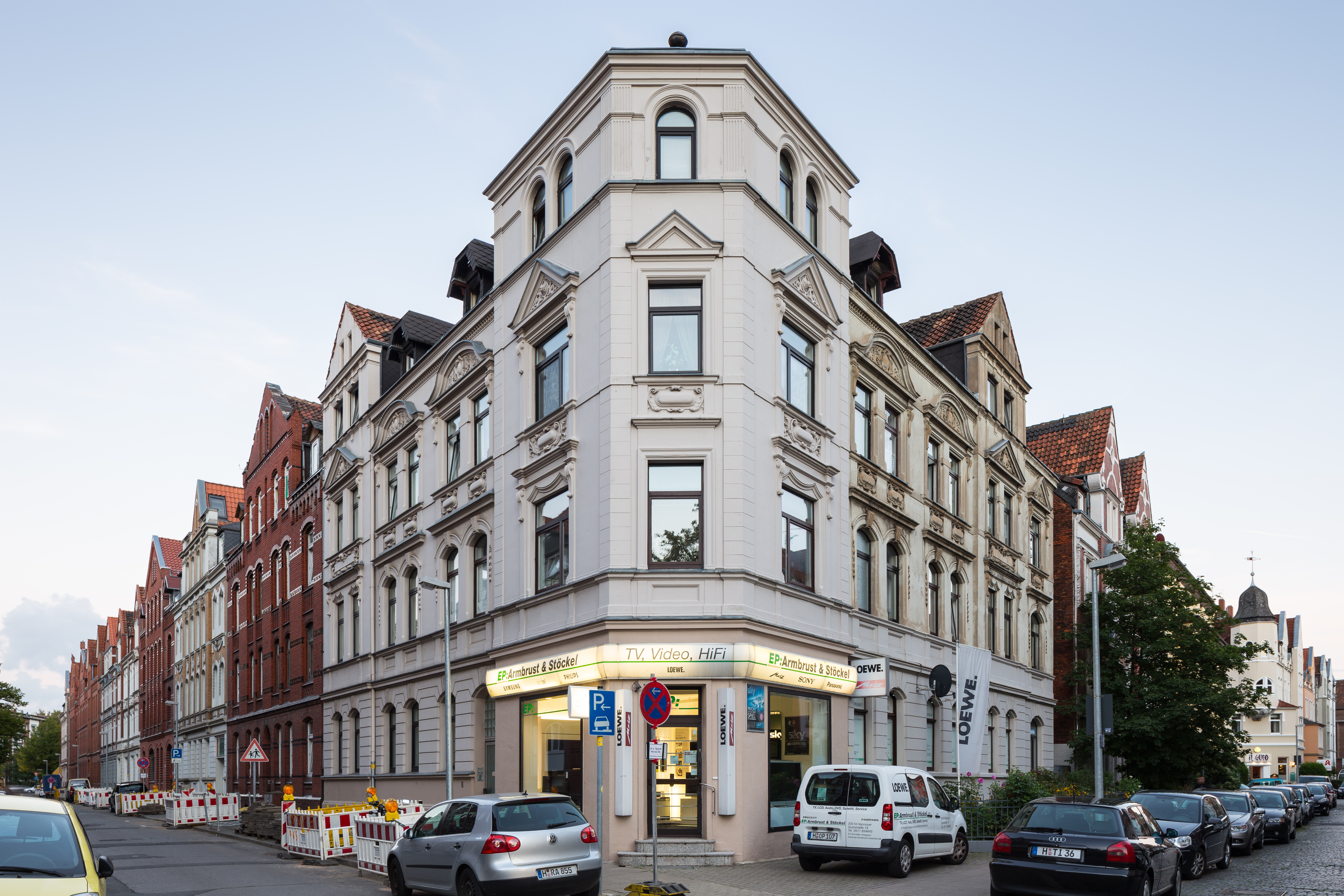 Apartment house located at Querstrasse no 27 and Ziegelstrasse in Doehren quarter of Hannover, Germany.